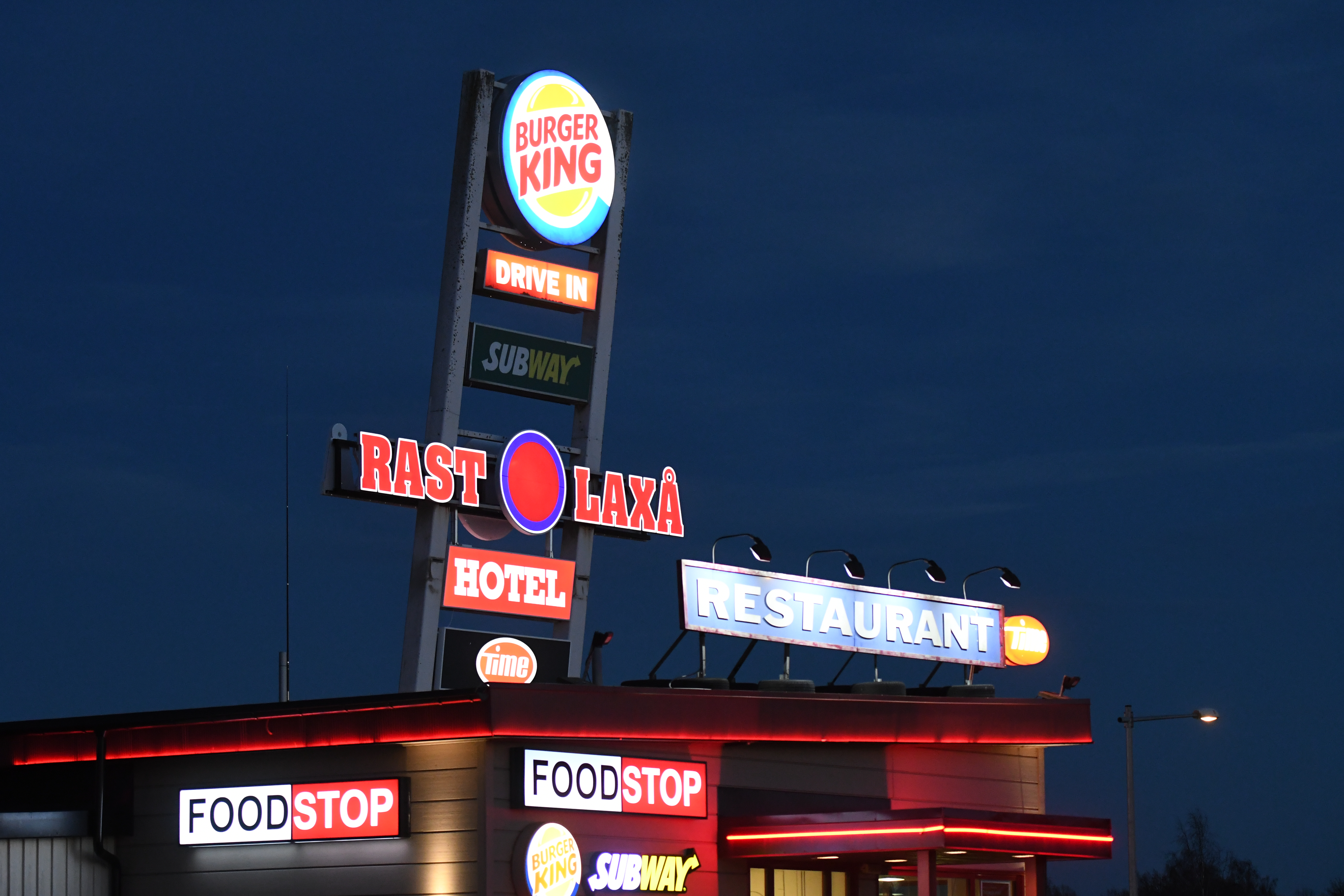 Ad pulchritudinem 2018, on the concept of beauty. RastPunkt Laxå.